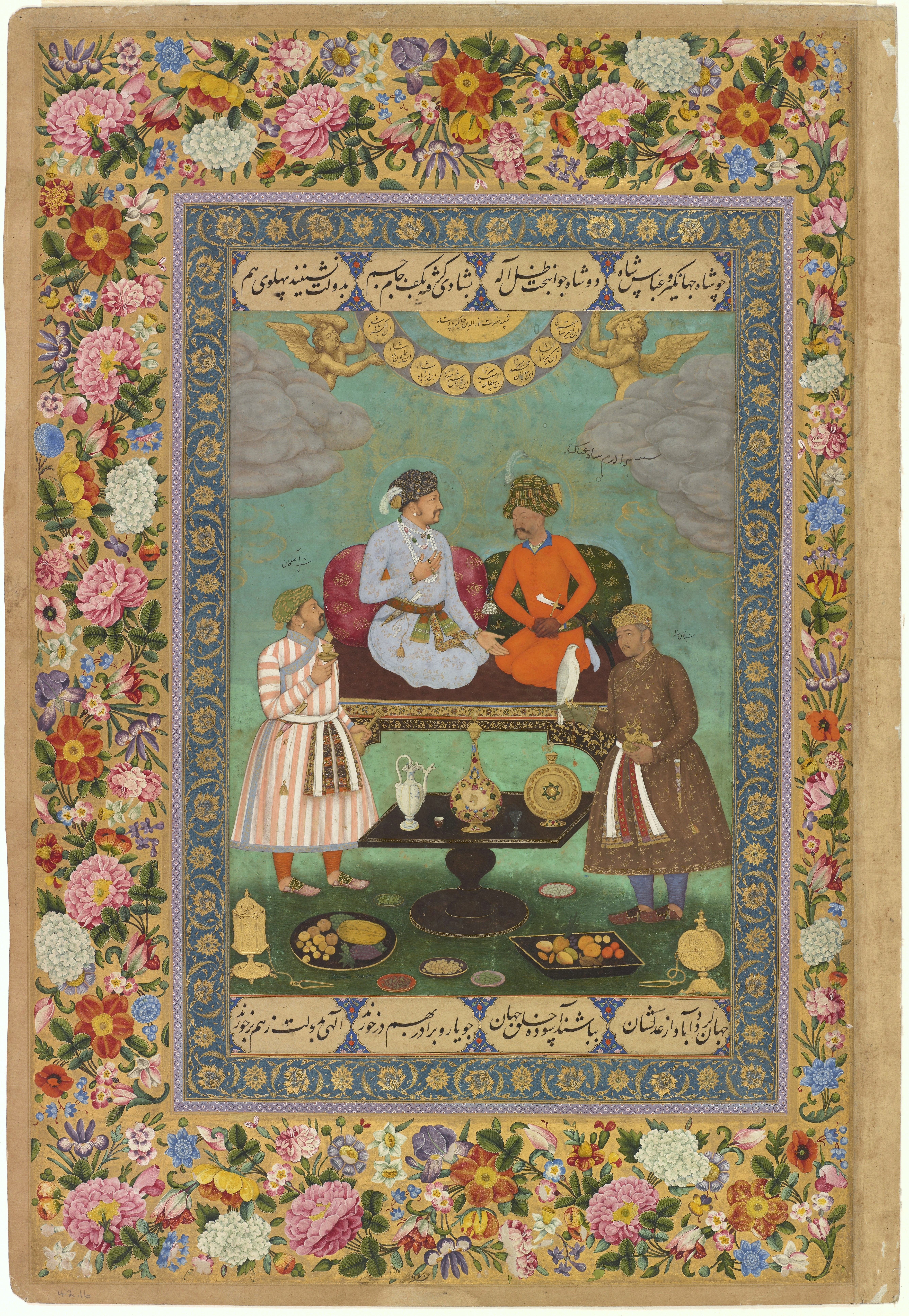 Abu'l Hasan. Jahangir Welcoming Shah 'Abbas, ca. 1618, Freer Gallery of Art, Washington DC